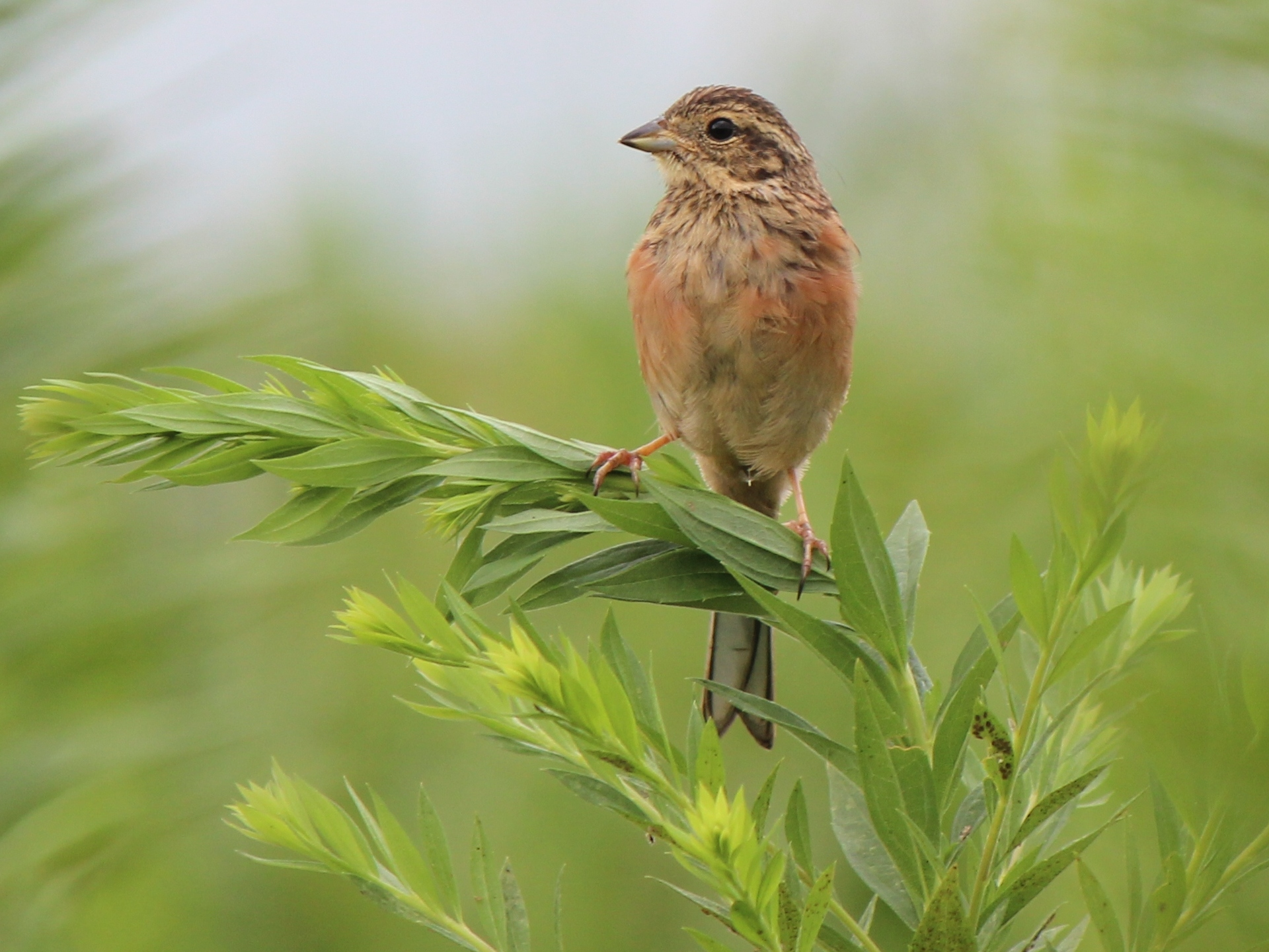 Emberiza cioides (Meadow Bunting), young on grass in Japan.